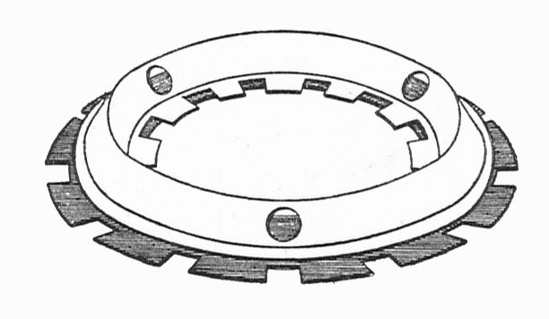 Hele Shaw clutch plate (Rankin Kennedy, Modern Engines, Vol II).jpg